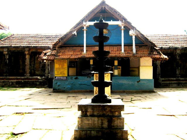 Thirunelly temple front view.